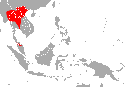 Marshall's Horseshoe Bat (Rhinolophus marshalli) range